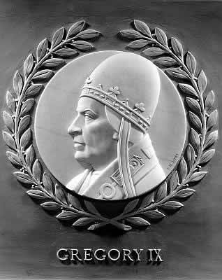 Gregory IX marble bas-relief, one of 23 reliefs of great historical lawgivers in the chamber of the U.S. House of Representatives in the United States Capitol. Sculpted by Thomas Hudson Jones in 1950. Diameter 28 inches.